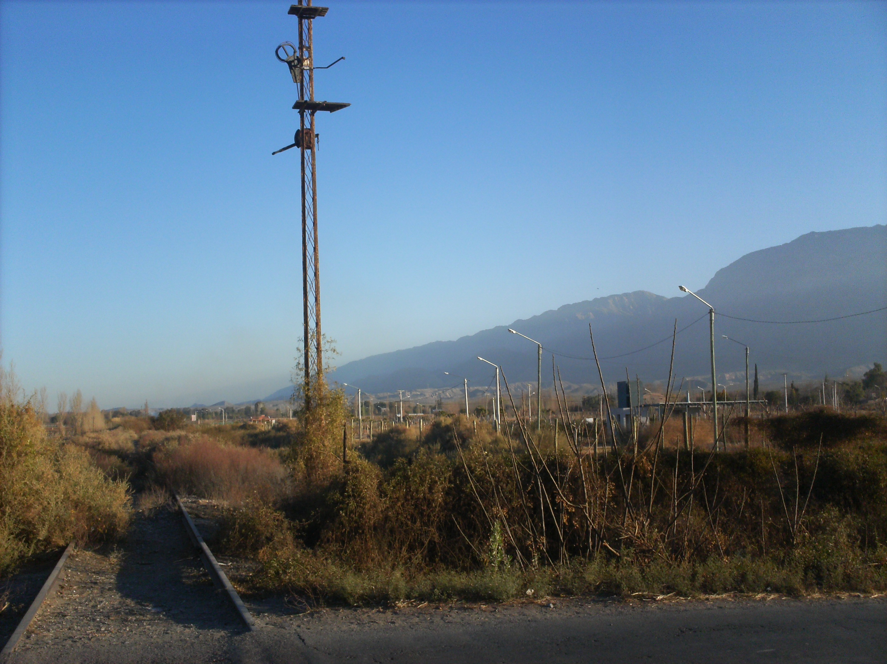 Level crossing with the San Martín Railway in La Rinconada, San Juan province, Argentina.